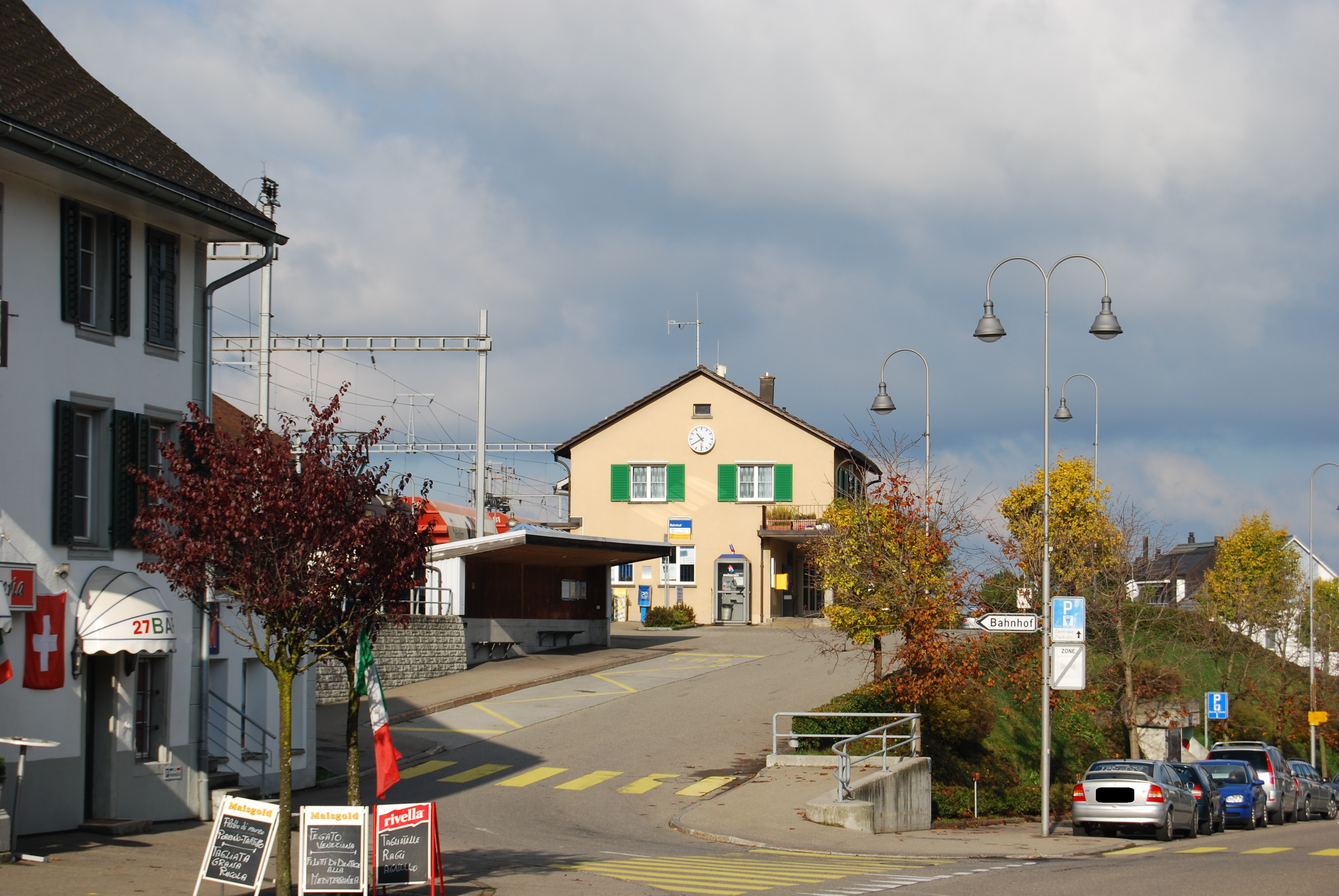 Train station of Schindellegi, canton of Schwyz, Switzerland